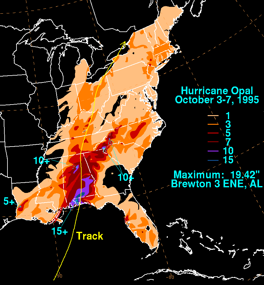 Storm total rainfall map of Hurricane Opal during October 1995.